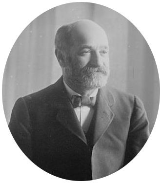 Joseph Fels (1853-1914), American millionaire